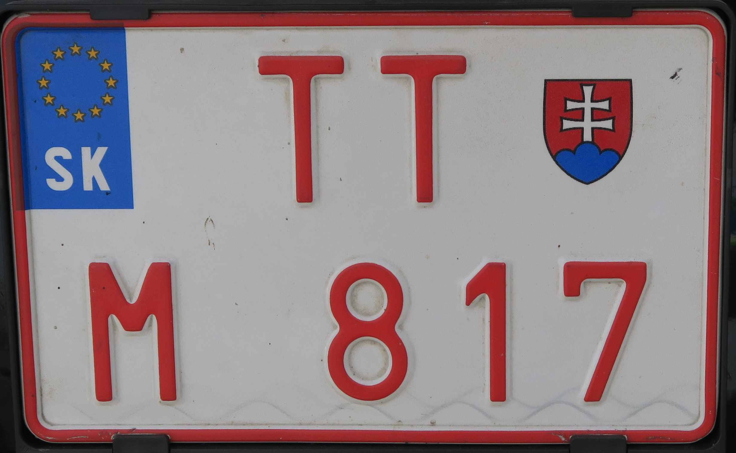 License plates of Slovakia